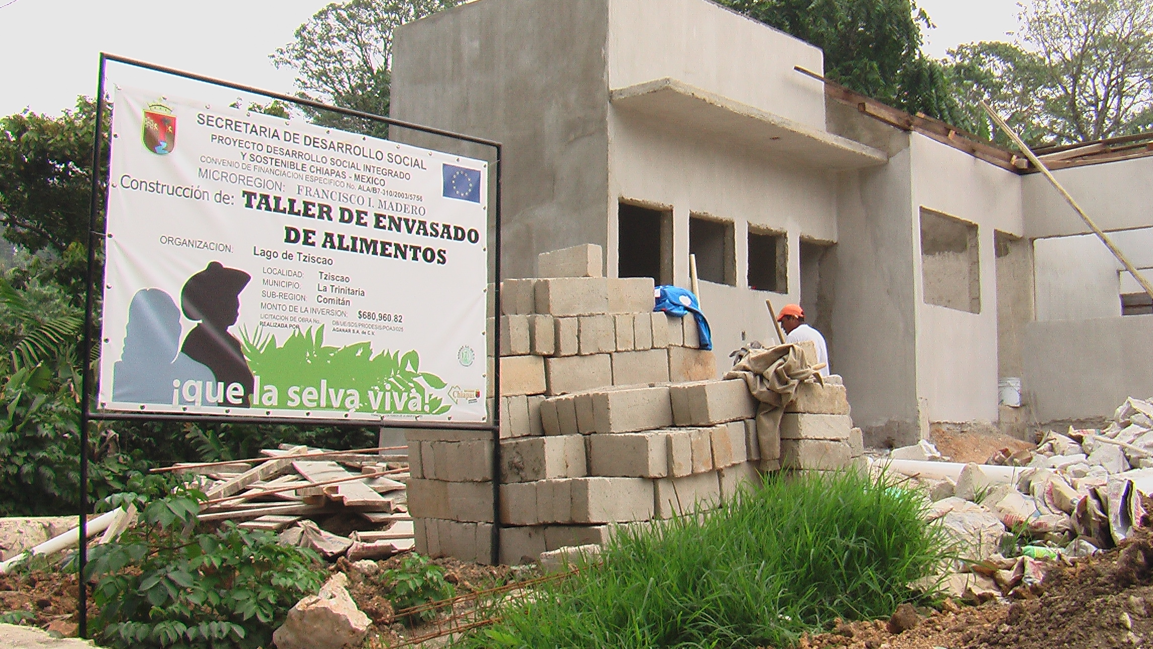 Prodesis was a development project in the Lacandon region of Chiapas, Mexico, that ran from 2004 to 2008. Photo by MirrorMundo